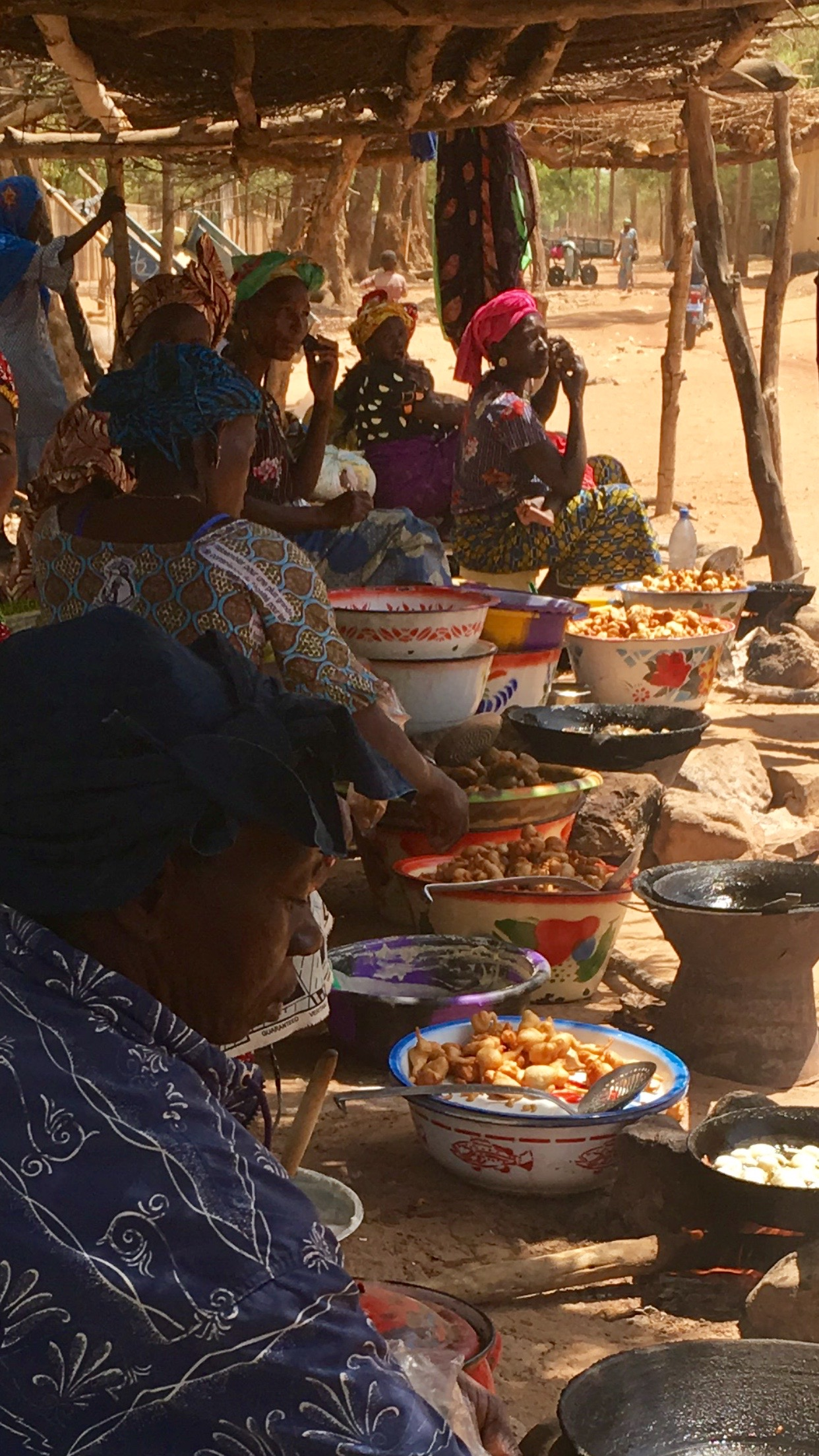 This is an image with the theme "Africa on the Move or Transport" from: Mali